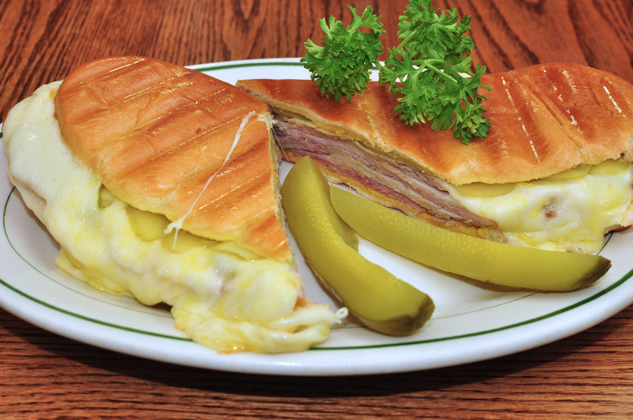 A Cuban sandwich.